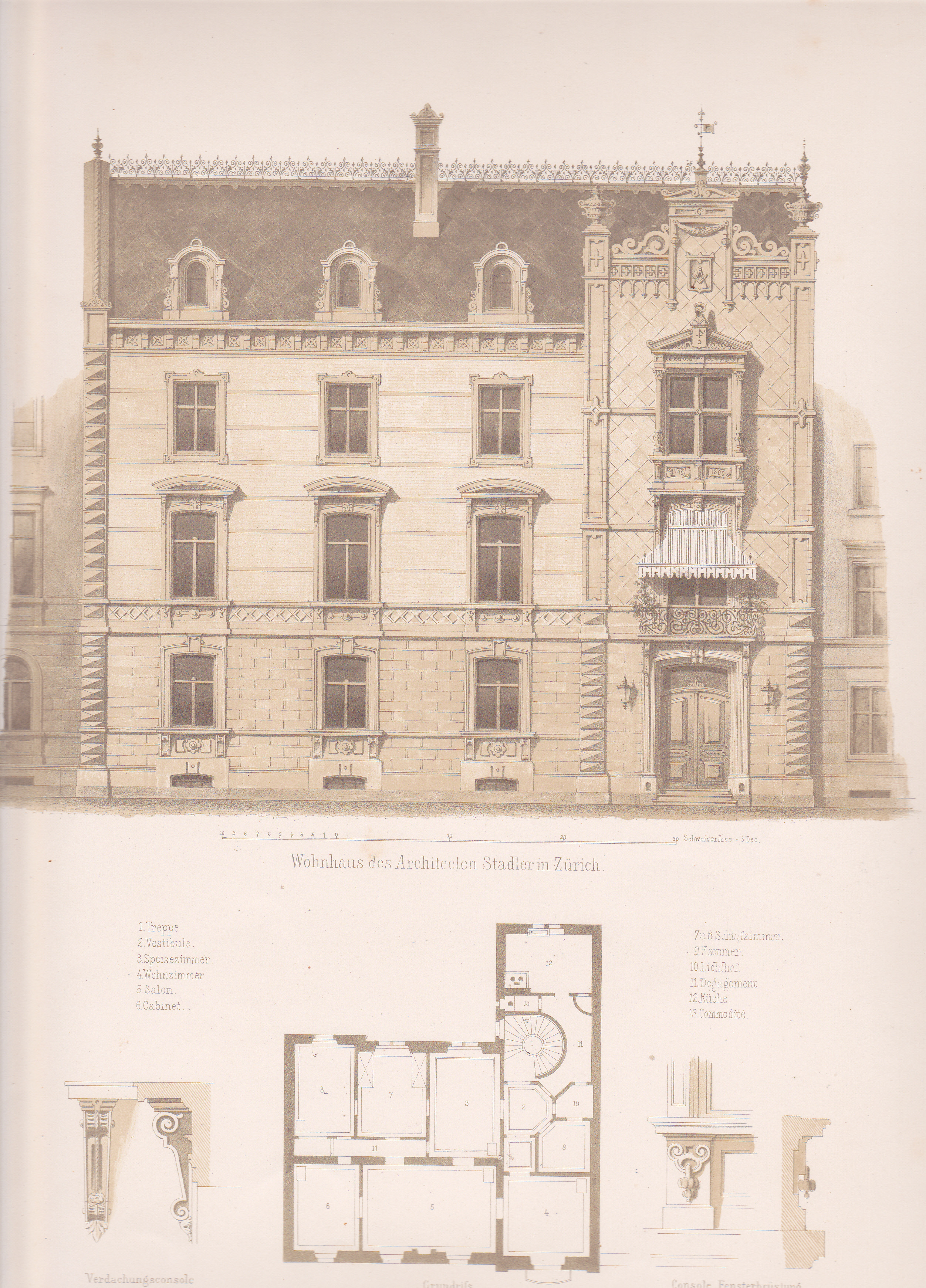 The private home of Swiss architect Ferdinand Stadler (1813-1870) in Zurich's Enge-district, built before 1848, published in "Architekten Skizzenbuch", edited by v. Ernst & Korn in Berlin, year unknown, volume XLVIII